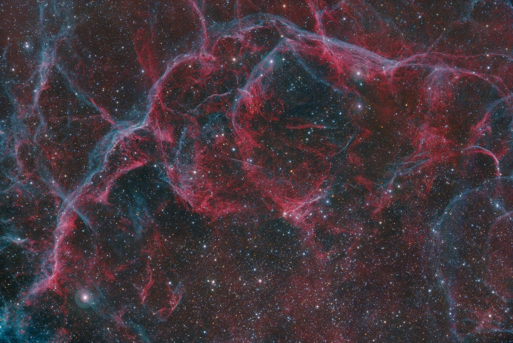 Long exposure photograph of the Vela Supernova Remnant, taken from the Kalahari Desert in Namibia. This image shows the supernova remnant's northern section. The location of the Vela Pulsar, which is the origin of the supernova remnant, is approximately indicated by the annotation. North is to the left. Total exposure time was 11:40 hours. Telescope was an Officina Stellare Riccardi-Honders Veloce RH 200 OTA, camera was an SBIG STL-11000M on an AP GTO1200 mount, guided with PHD.